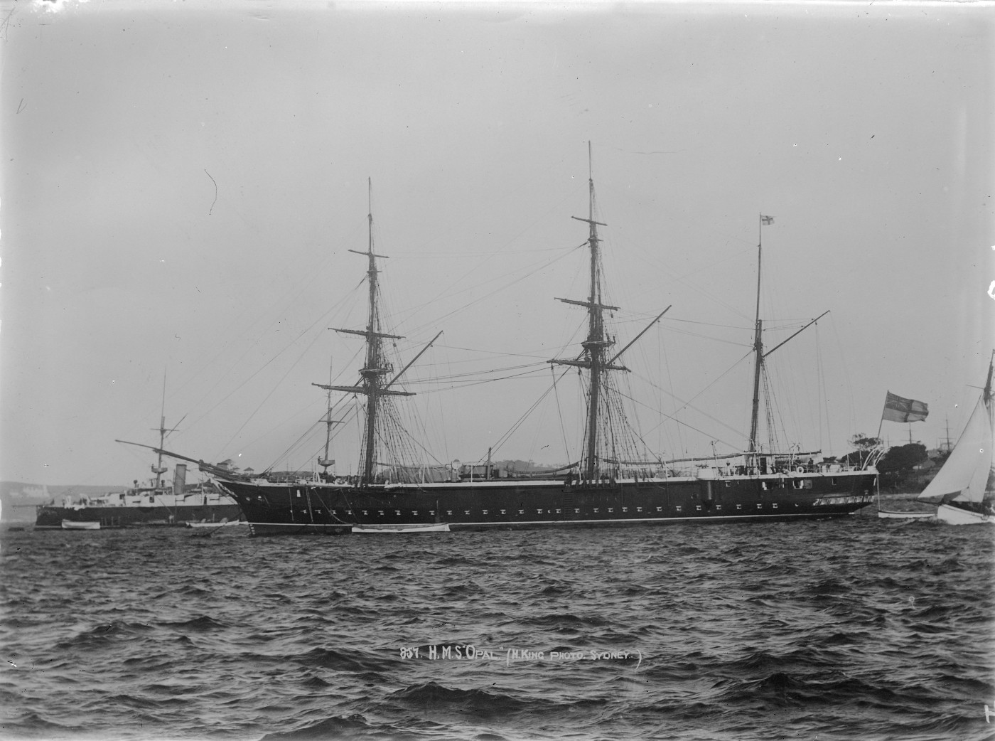 Photograph of British corvette HMS Opal, probably in Sydney while on the Australia Station.